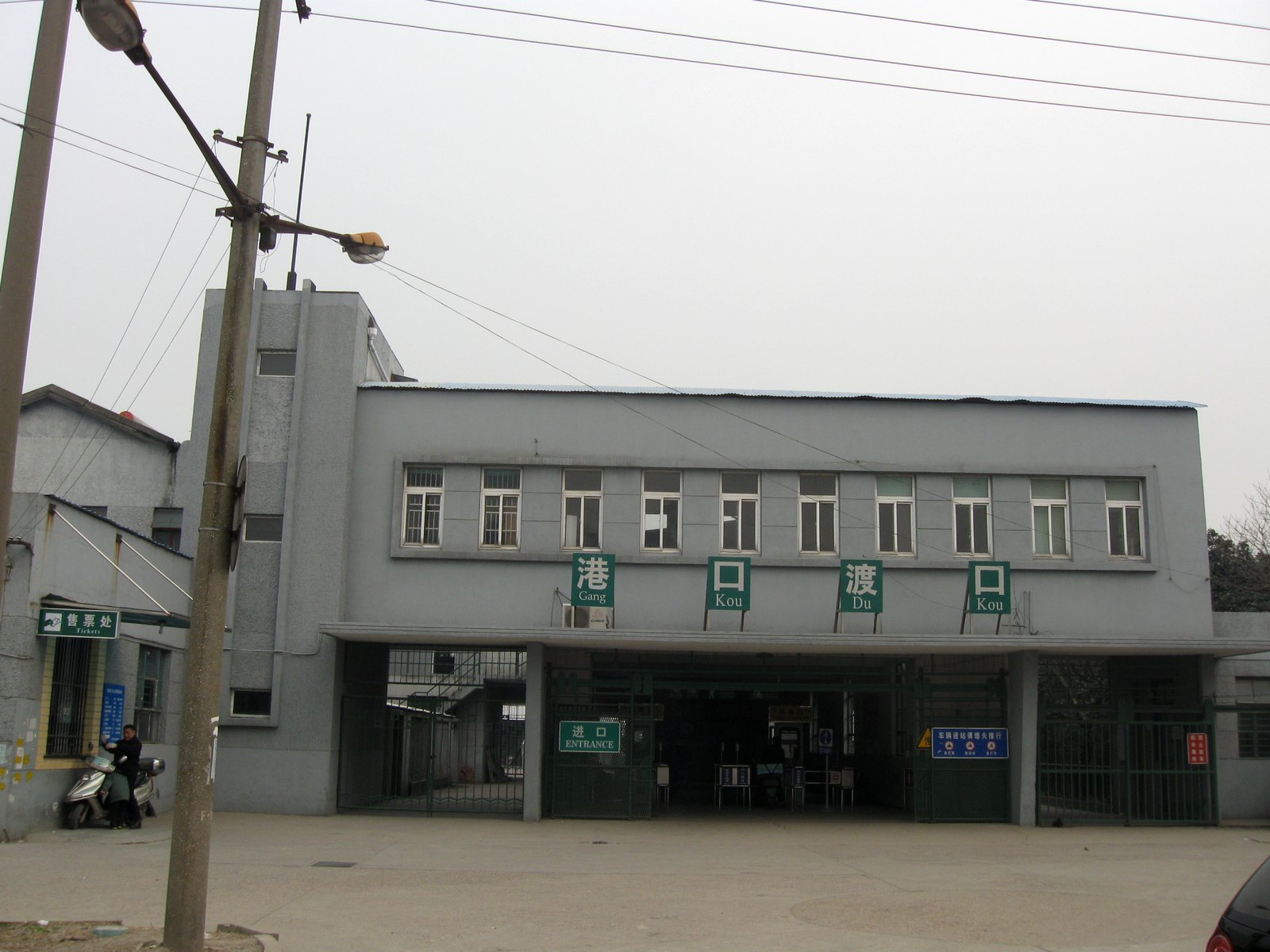 Gangkou Ferry